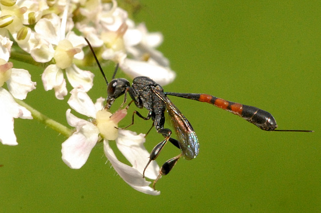 Gasteruption assectator from Commanster, Belgian High Ardennes .